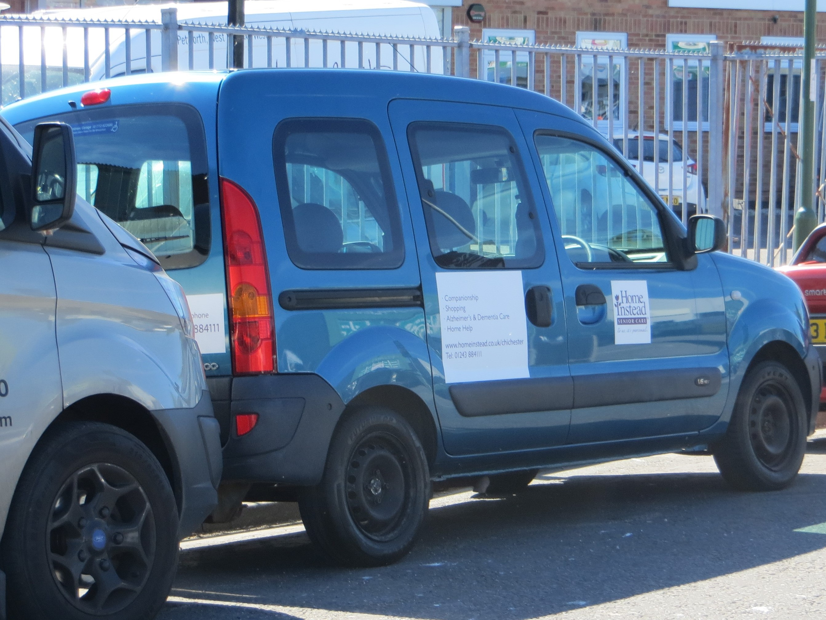 Home Instead Senior Care car with adaptions to carry a wheelchair seated passenger